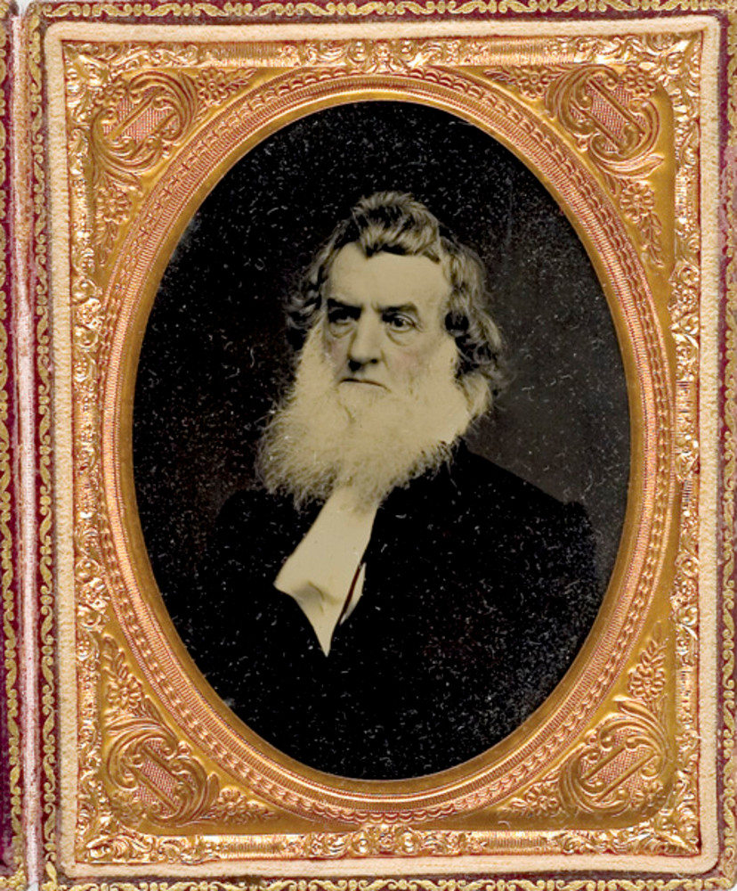 Gideon Welles.